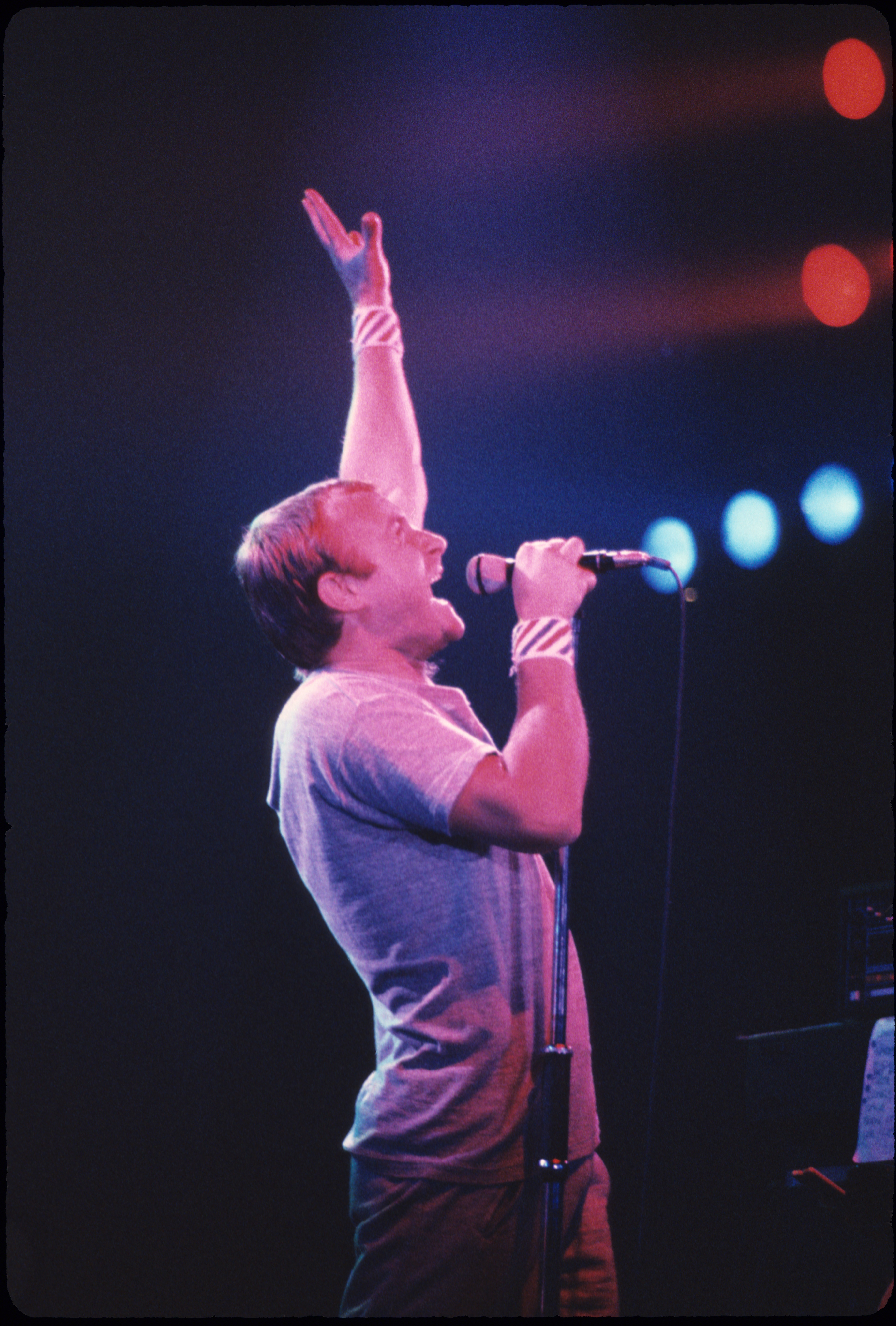 Strasbourg-1981-10-28-26